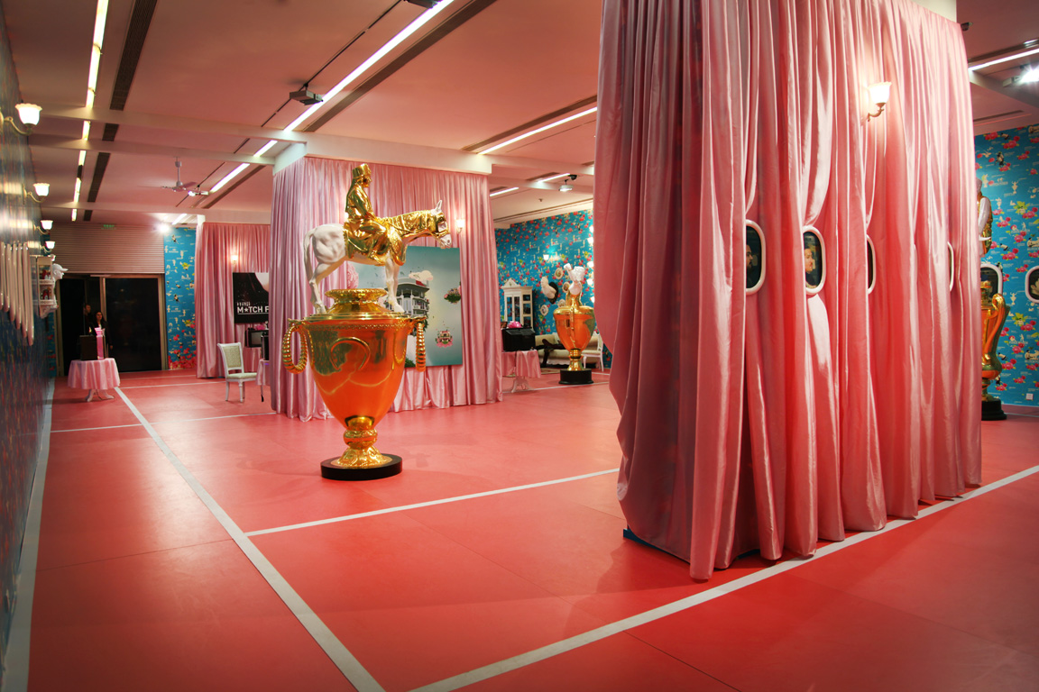 Match Fixed by Thukral and Tagra at Ullens Center for Contemporary Art (Beijing)